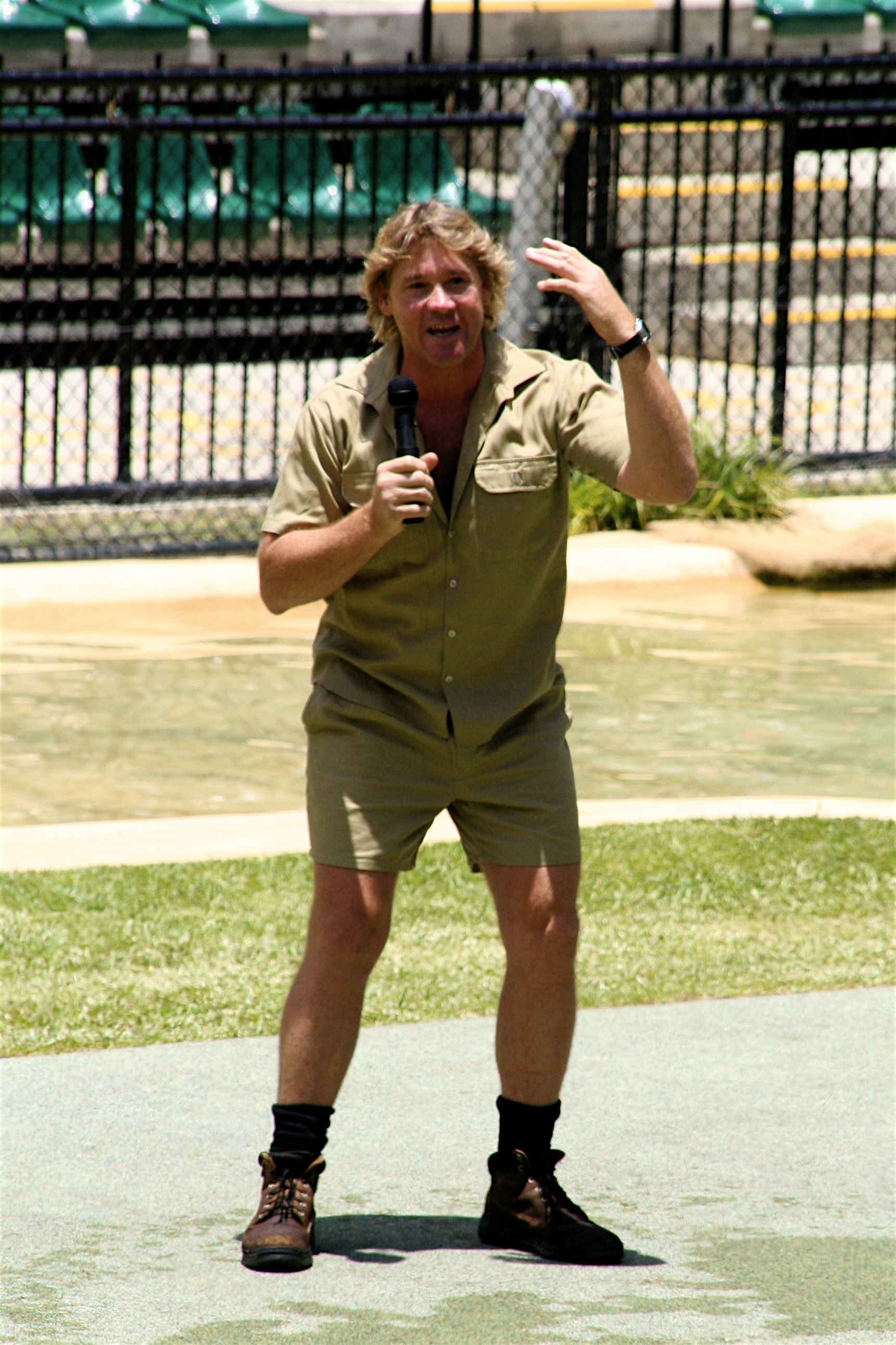 Steve Irwin at the Australia Zoo in 2005